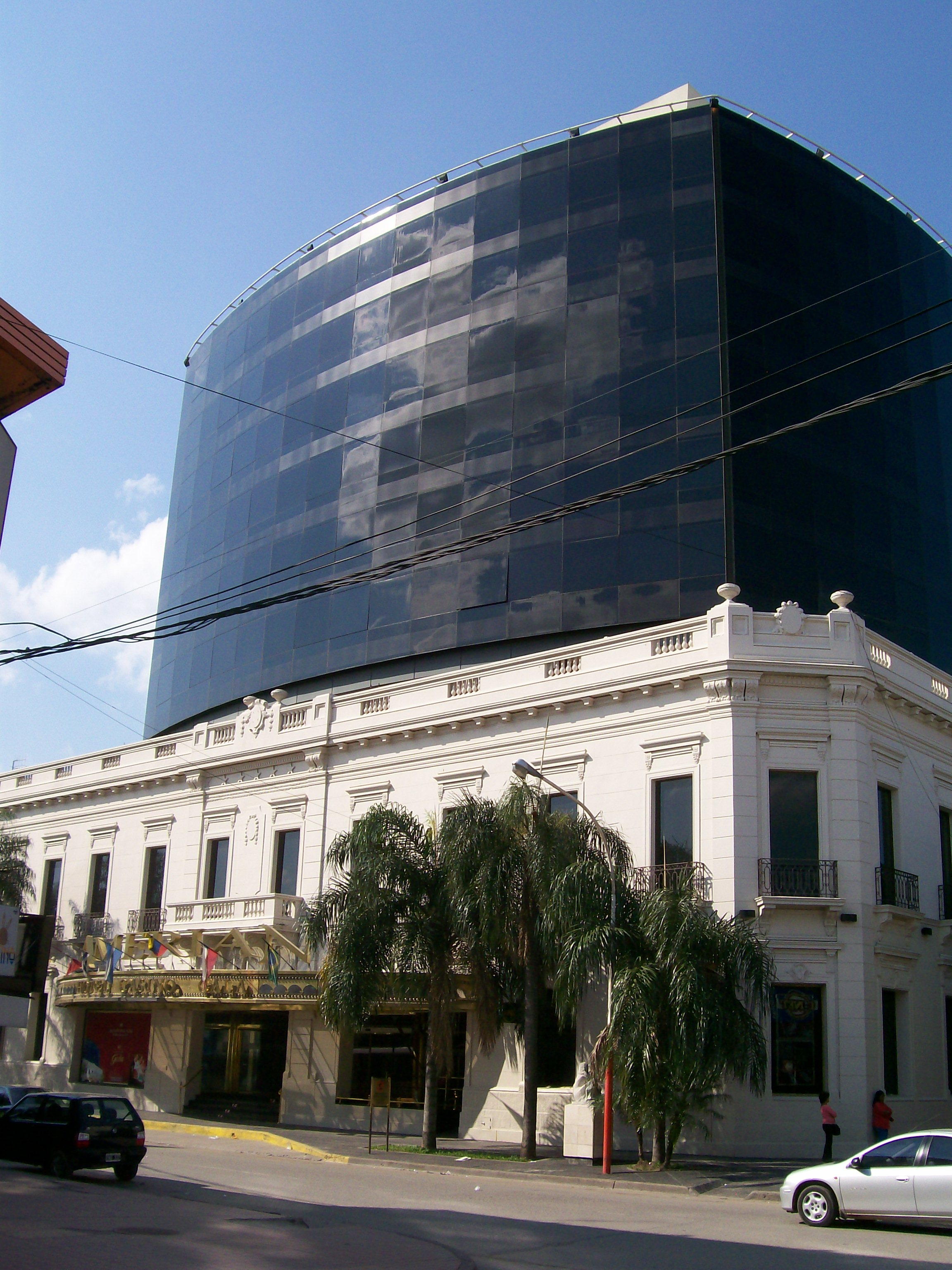 Amerian Hotel Casino Gala (5 stars) in Resistencia, Chaco, Argentina. The 117-room hotel was opened in 2004 and includes a 2500 m2 (27000 ft2) casino in the ground floor.